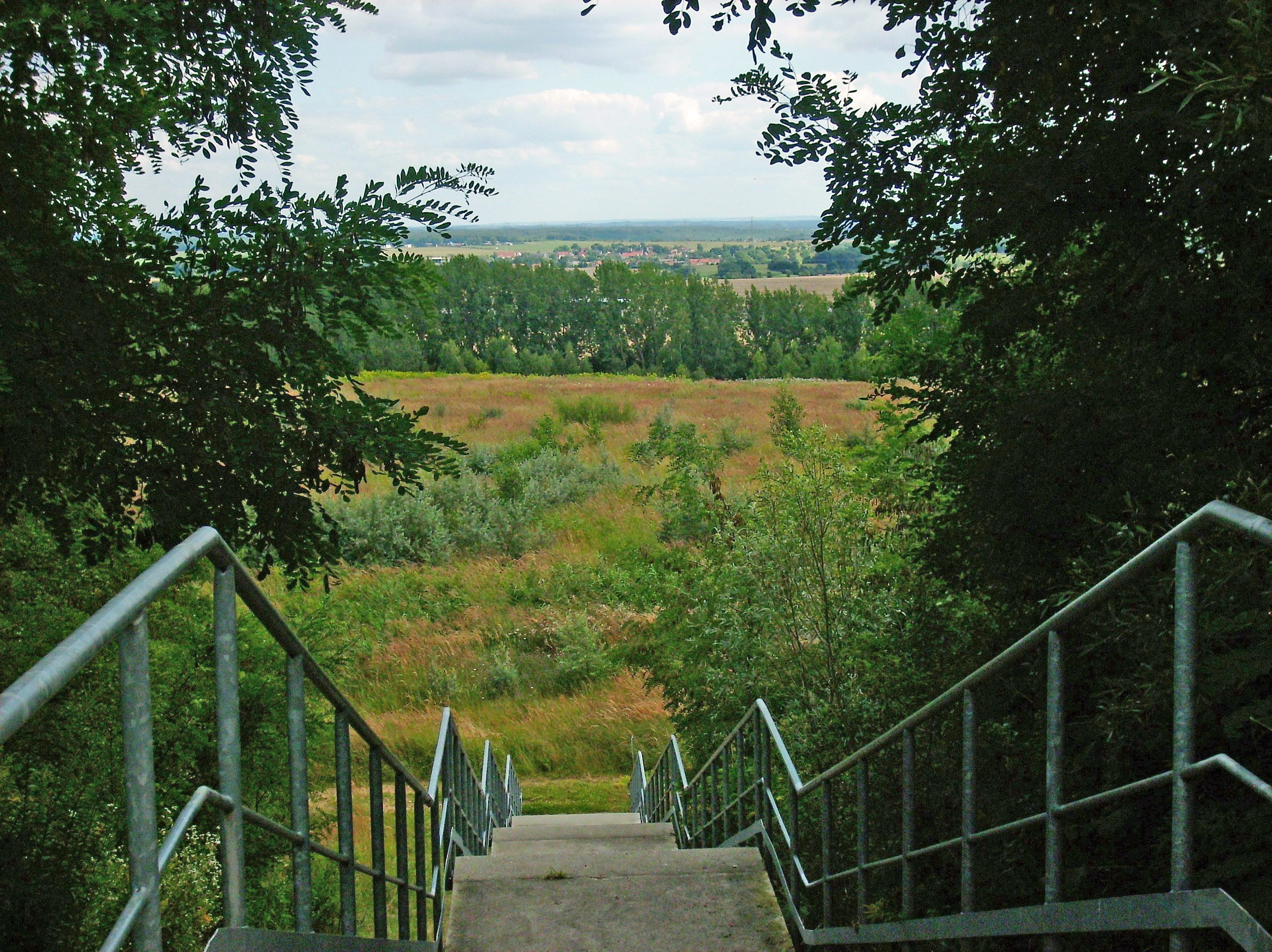 Stairway at the southern access to the Trages slag-heap, with the village of Thierbach (Kitzscher, Leipzig district, Saxony) in the background